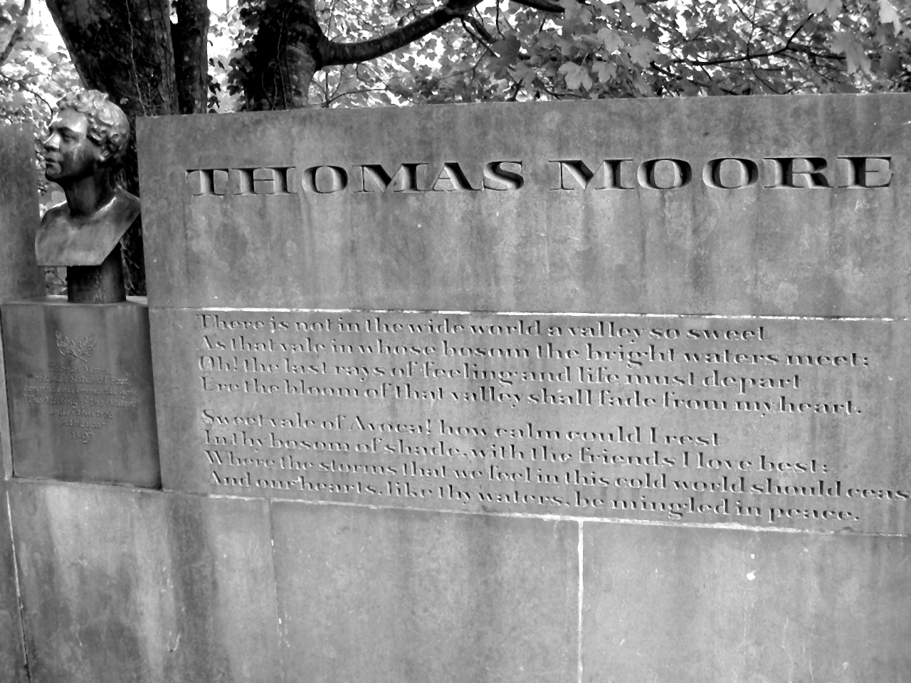 Denkmal für Thomas Moore in Meeting Of The Waters